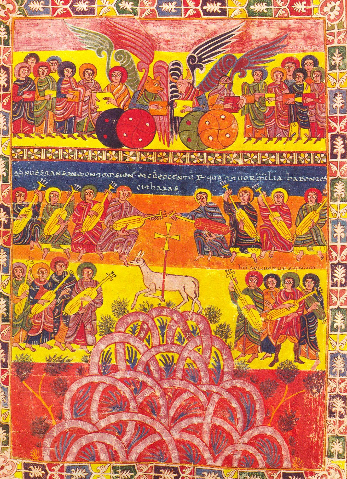 Page from the medieval book "Commentary on the Apocalypse". Each book was hand copied, including the art, making each copy unique. This page comes from the Morgan Beatus copy, also known as the Beatus of San Miguel de Escalada. Ca. 960. Morgan Library (New York). Ms 644. 280 x 380 mm. 89 miniatures, painted by Magius, archipictor.